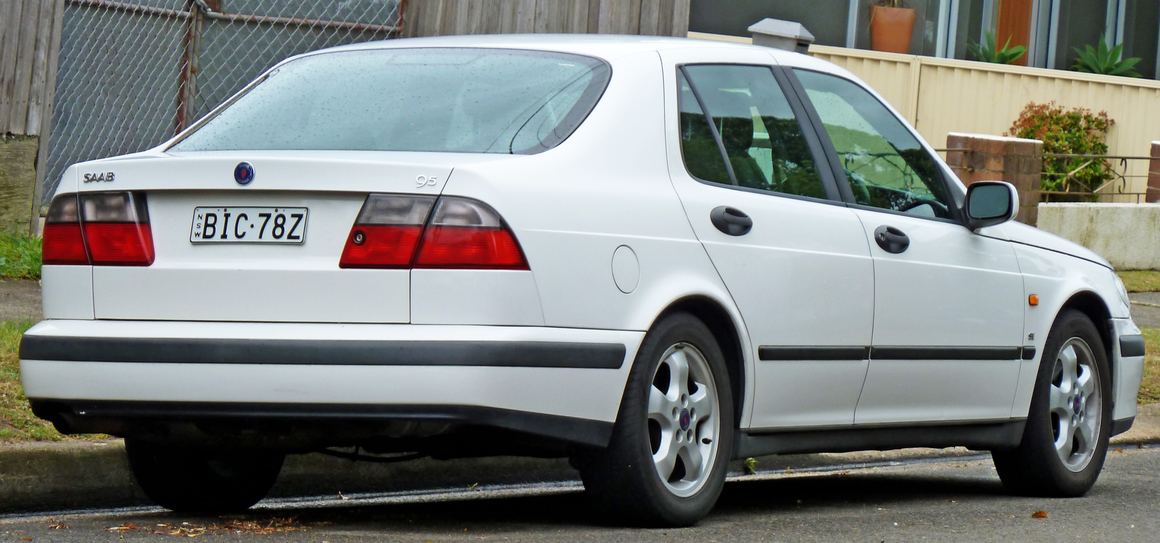 1997–2001 Saab 9-5 SE sedan. Photographed in Dolls Point, New South Wales, Australia.